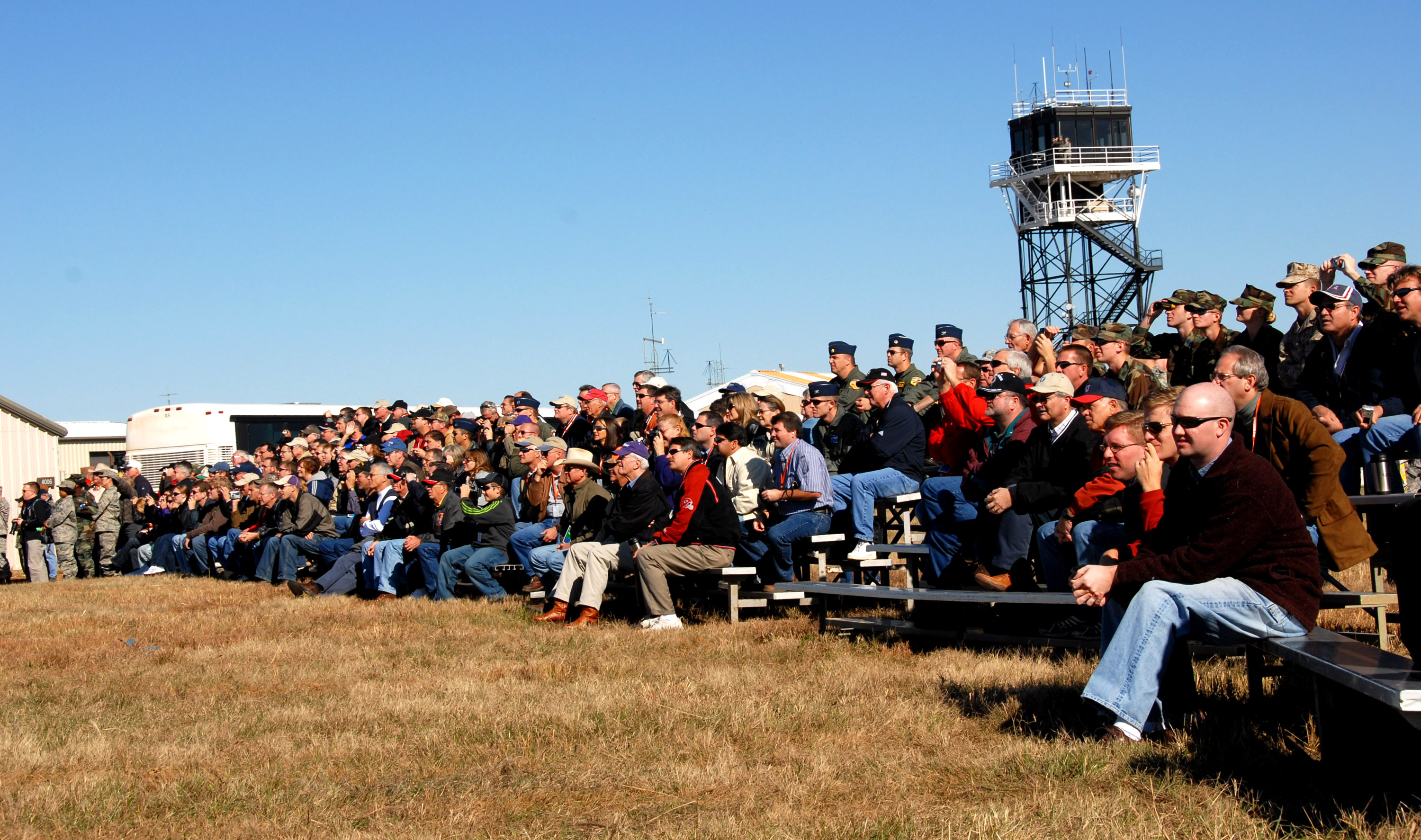 News media, community leaders and distinguished visitors at the Smoky Hill Range near Salina, Kan., watch A-10 Thunderbolt IIs make strafing and bombing runs Oct. 16 as part of Hawgsmoke 2008. Fourteen A-10 squadrons from across the Air Force are competing in Hawgsmoke 2008 Oct. 14 to 18. Hawgsmoke is a biennial A-10 bombing and aerial gunnery competition, which was hosted this year by the Air Force Reserve Command's 442nd Fighter Wing based at Whiteman Air Force Base, Mo.